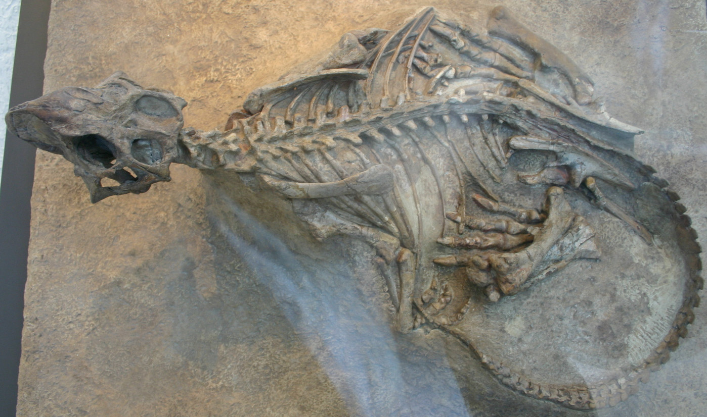 Holotype of Psittacosaurus mongoliensis, American Museum of Natural History